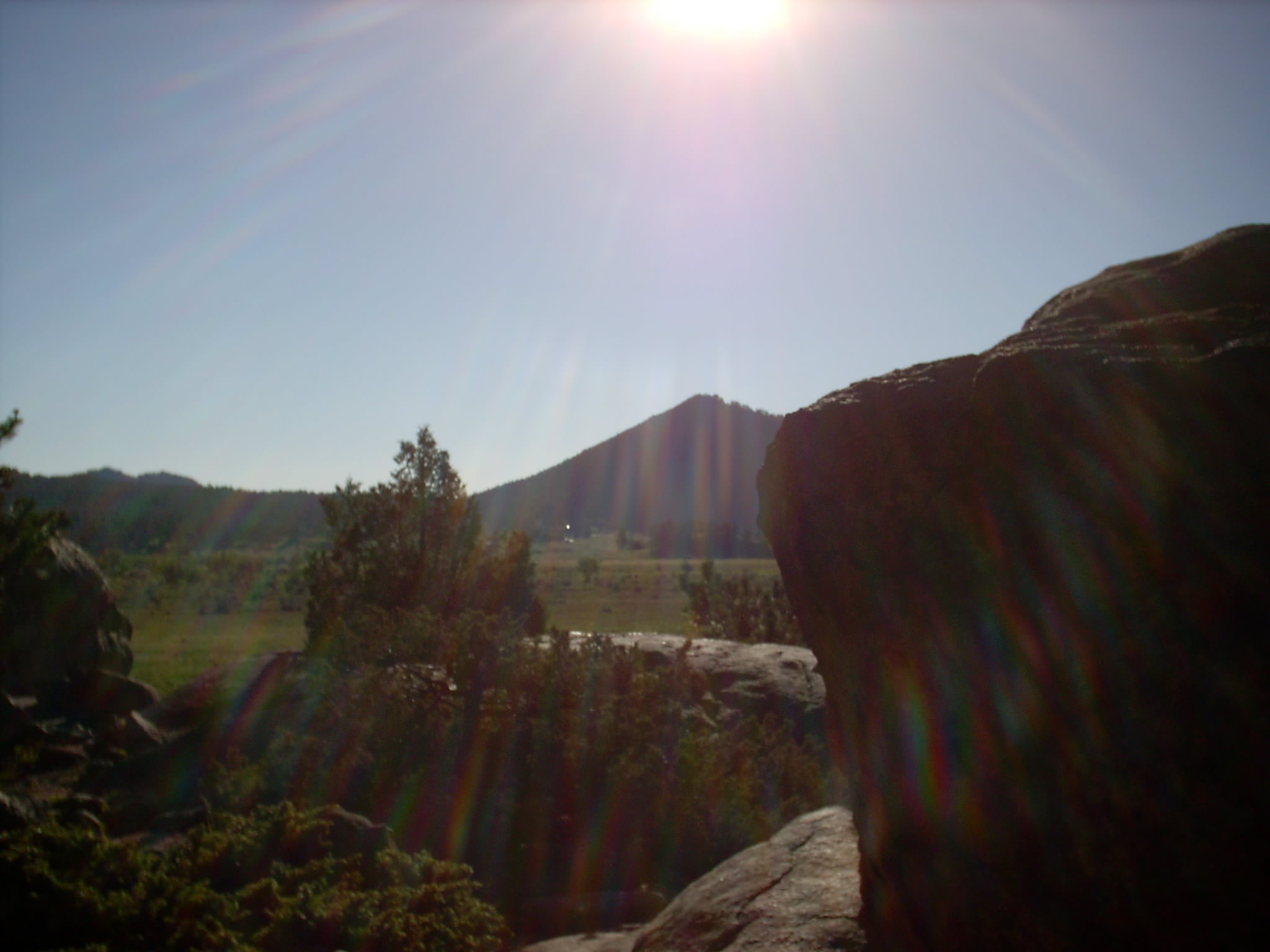 Mountains and boulders and in the sun.